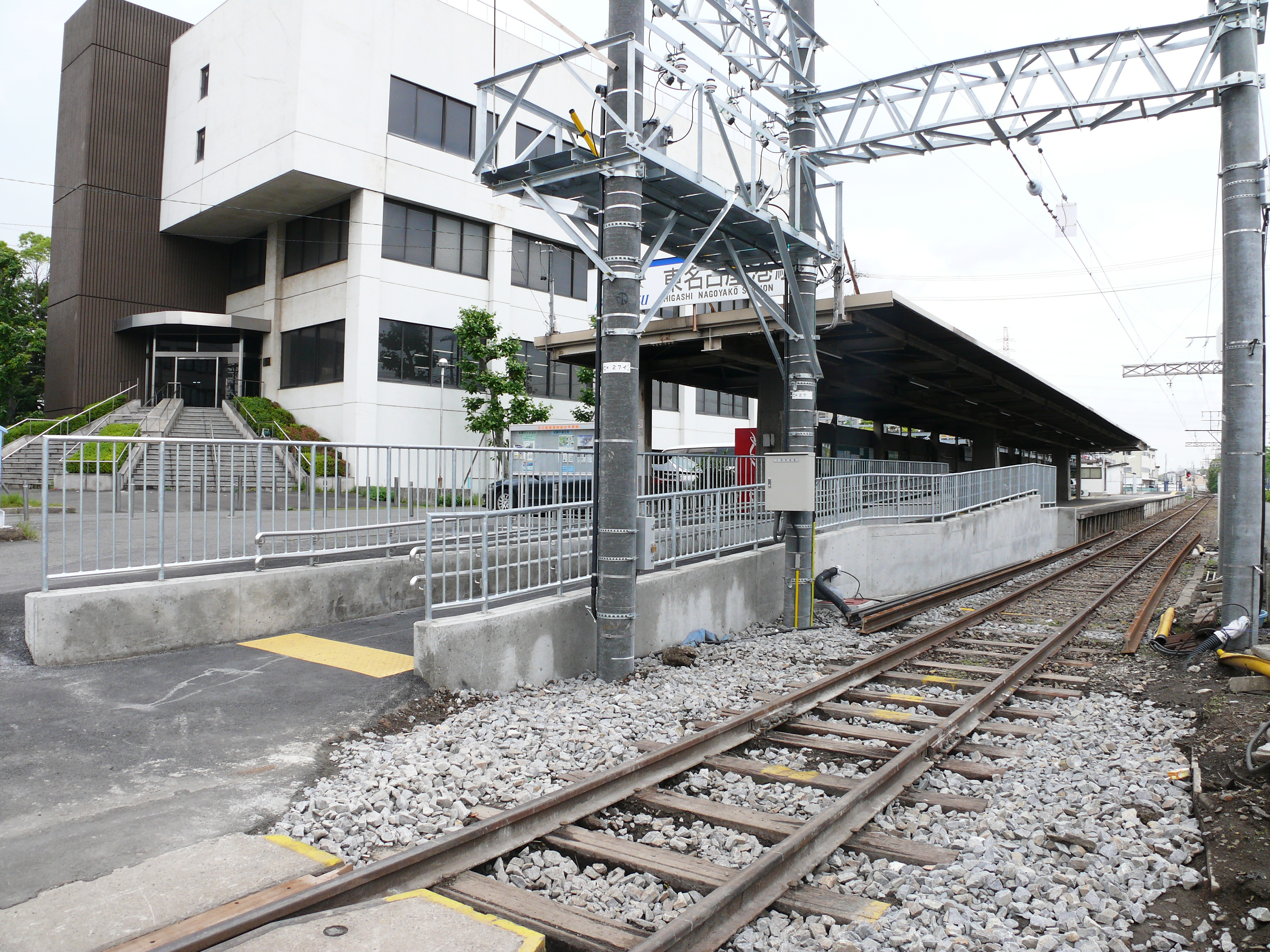 Meitetsu Higashi Nagoyako Station.